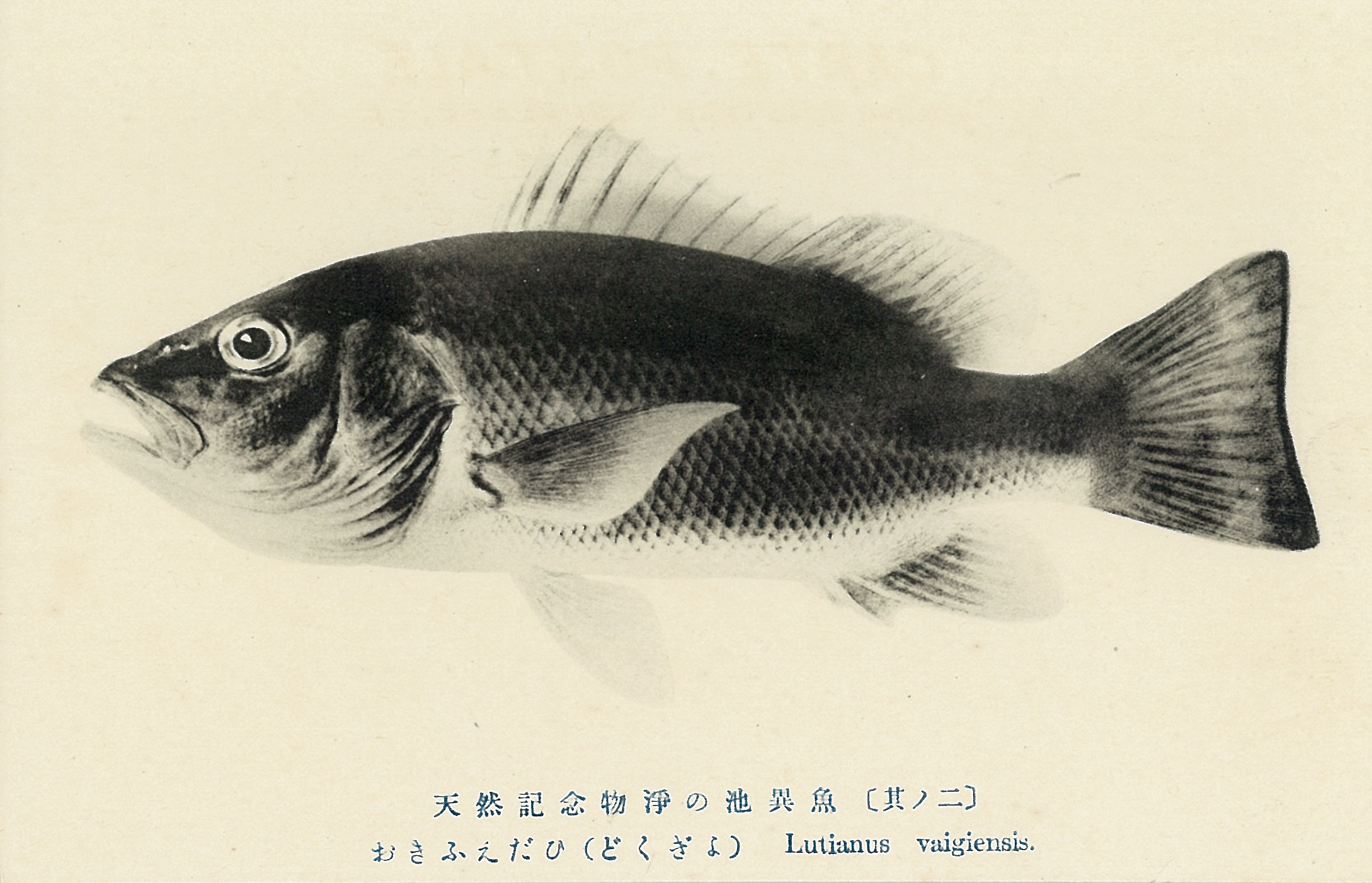 Jono-ike pond postcard. Black tail snapper.1936